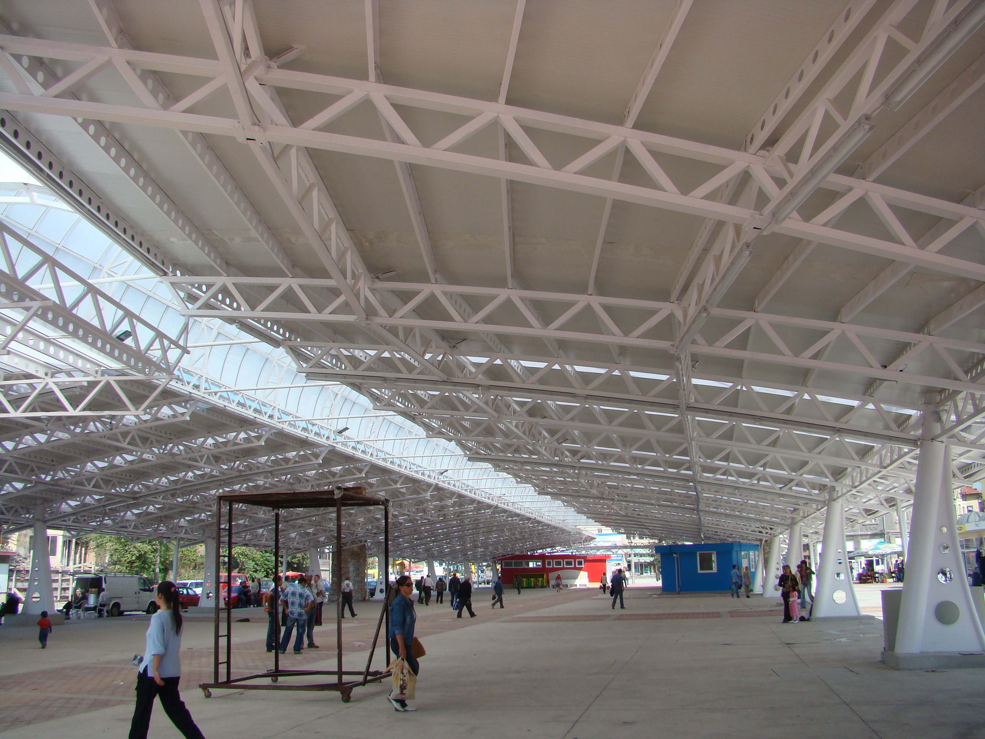 The new open marketplace of Kurdjali